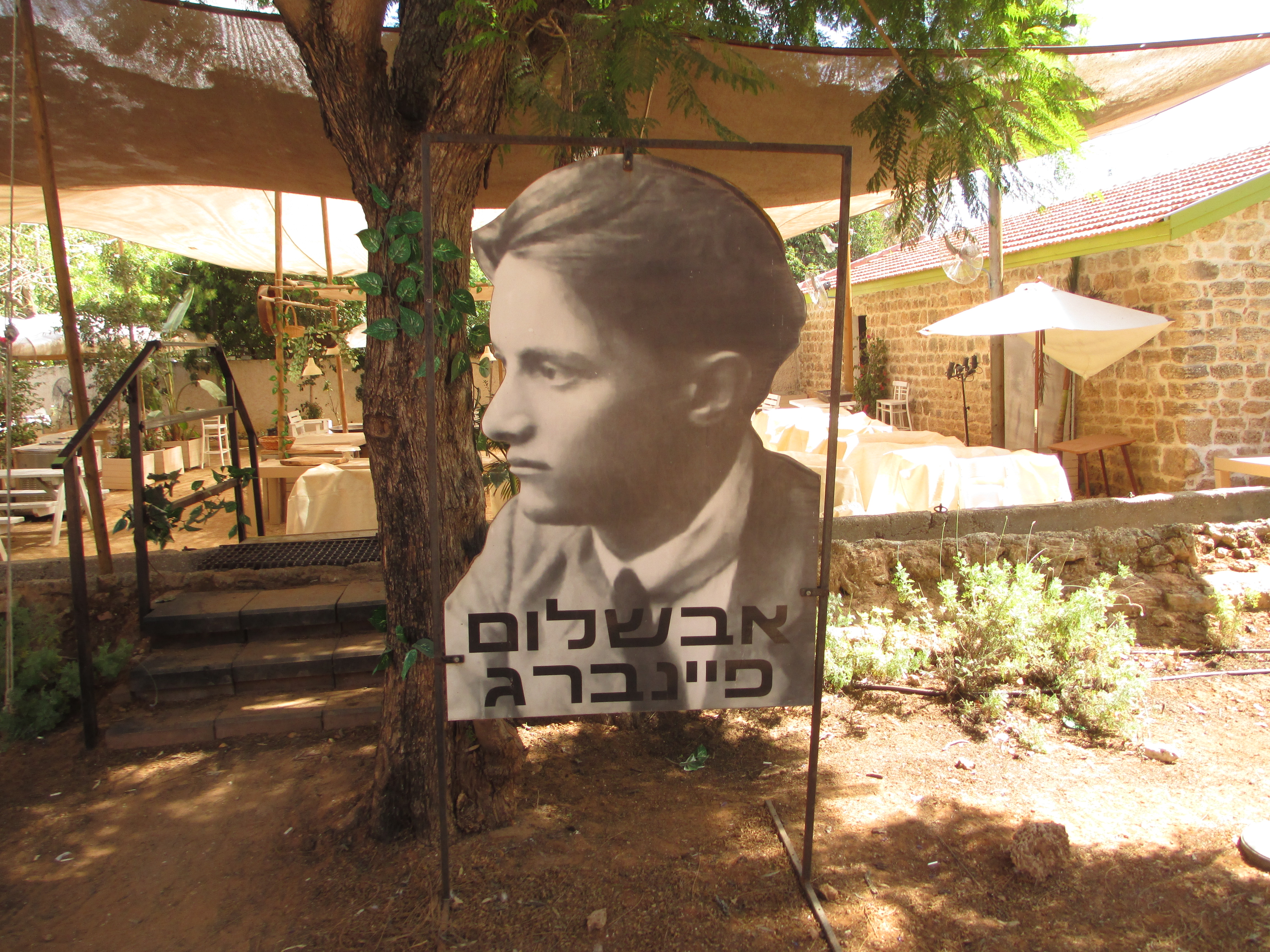 Feinberg house in Hadera